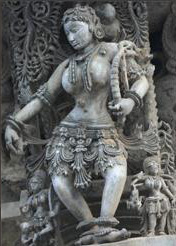 Belur Shilabalika.Successful huntress(A lady returning after hunting.On right bottom her maids are carrying the prey and on left one maid is removing the thorn) no 23 of 38 free standing bracket figures around the outside of Chennakesava temple